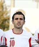 Ahmad Hayel before Football match between Jordan national football team and Syria national football team in Shahid Dastgerdi Stadium, Tehran. 2015 AFC Asian Cup qualification.